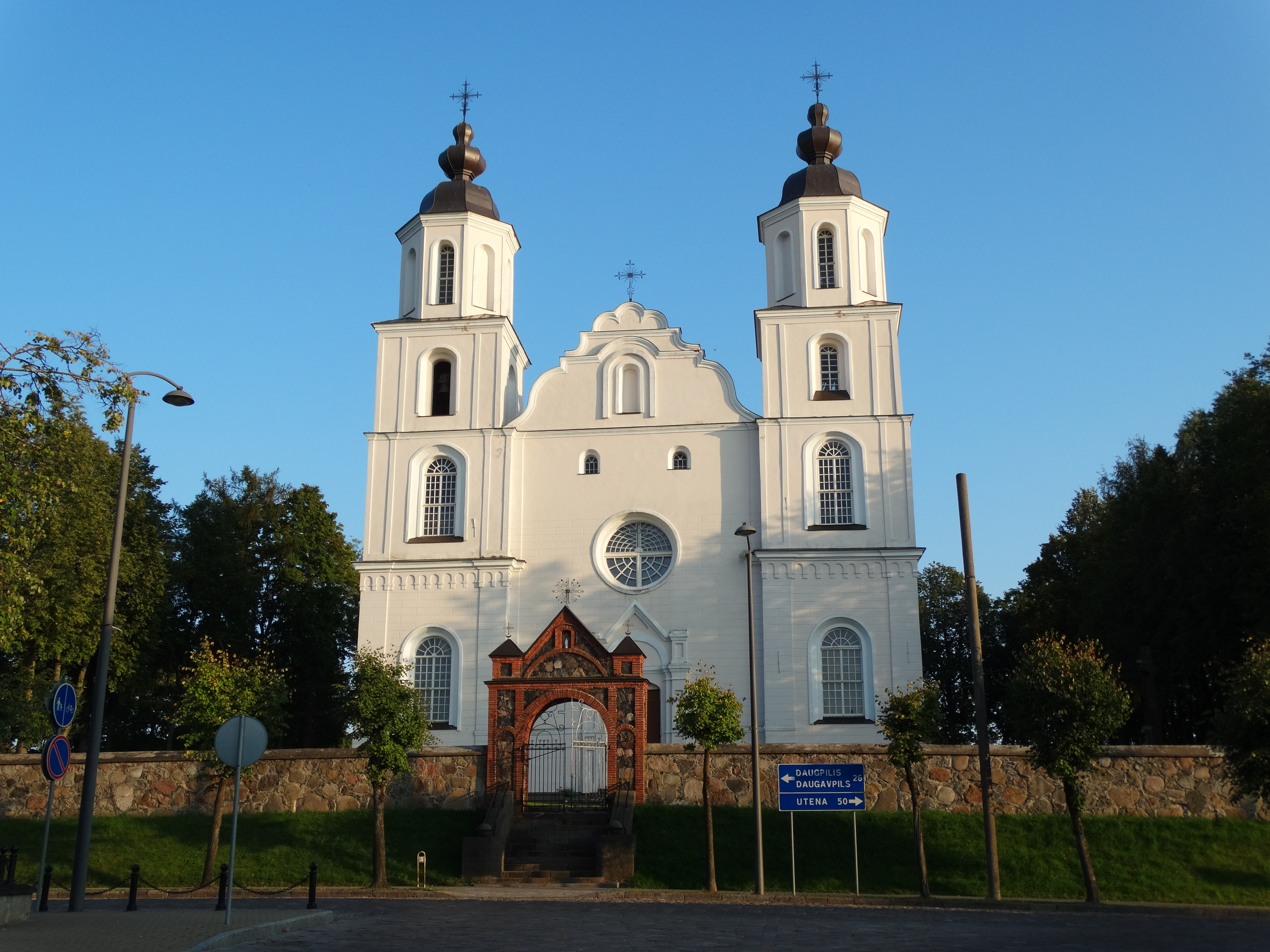 St. Virgin Mary's assumption church, Zarasai, Lithuania